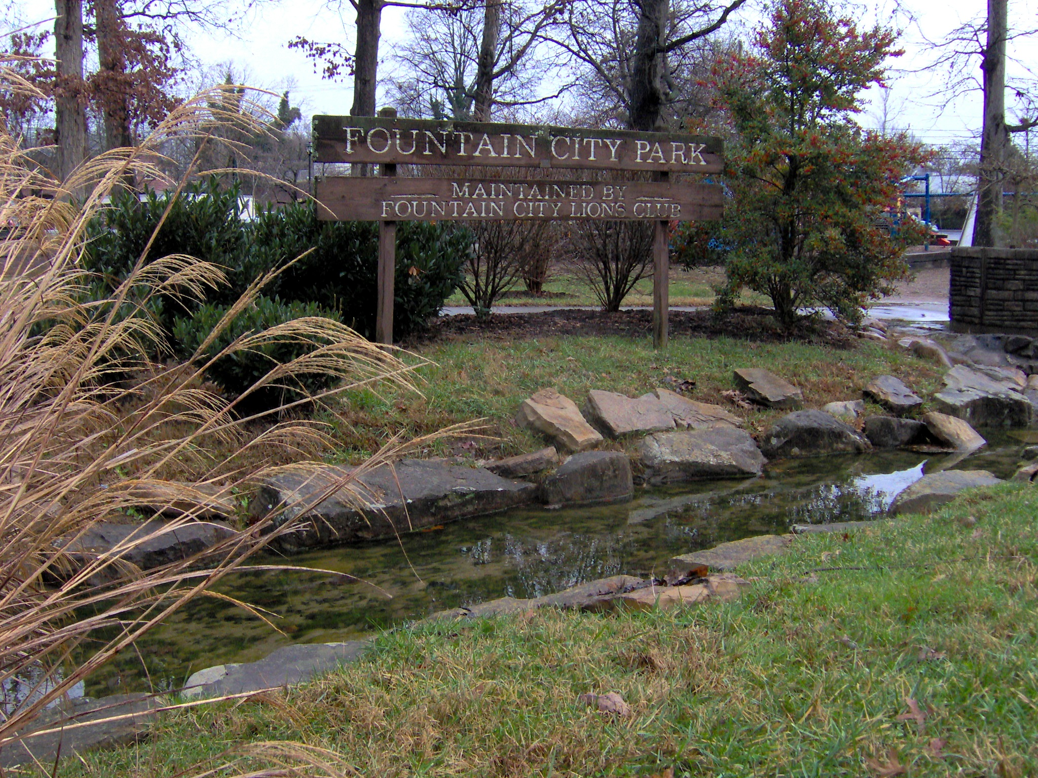 Fountain City Park in the Fountain City community of Knoxville, Tennessee, in the southeastern United States. The park was once home to the Fountain Head Campground, where religious revivals were held in the 19th century.